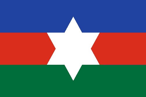 Flag of the Chin National Party